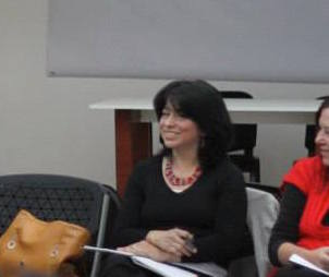 Photo of Rosina Cazali at the Absurdo simposium in Quetzaltenango, Guatemala in 2013.